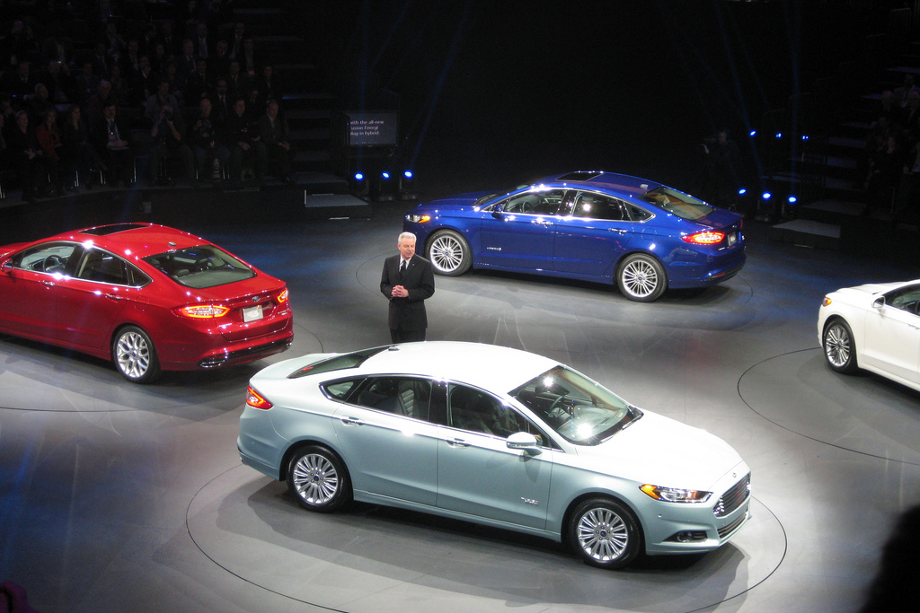 2013 Ford Fusion line-up unveiled at the January 2012 NAIAS, Detroit